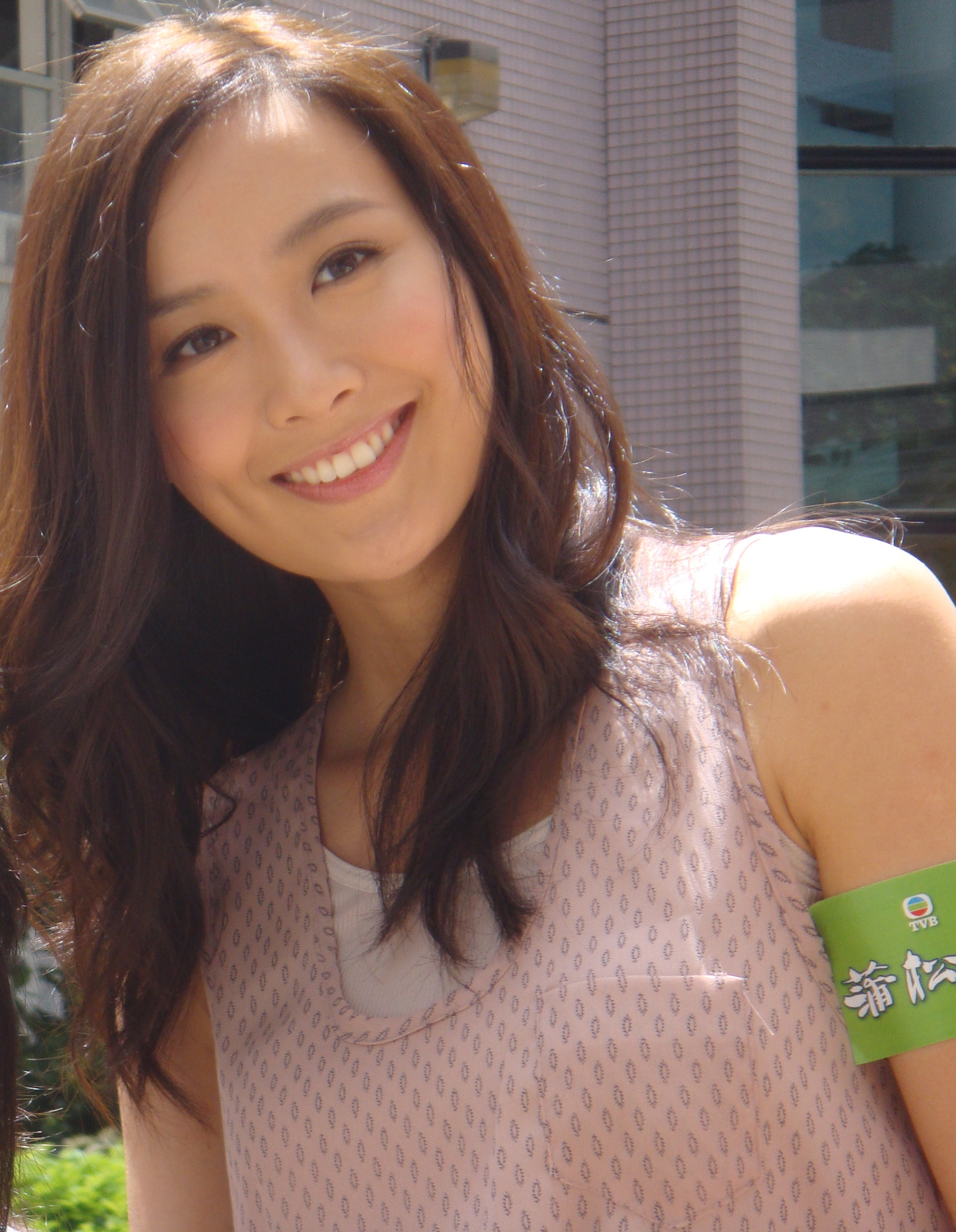 Fala Chen at Pu Song Ling Promo Event in 2010